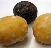 Timbits, sold by Tim Hortons, are sold in Canada. Chocolate and Honey Dip Timbits.